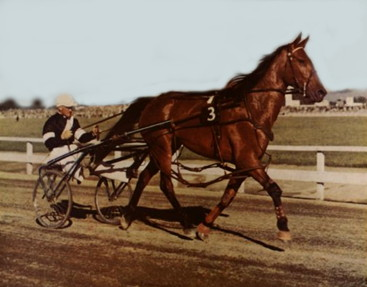 Cardigan Bay was an outstanding New Zealand Standardbred pacer.